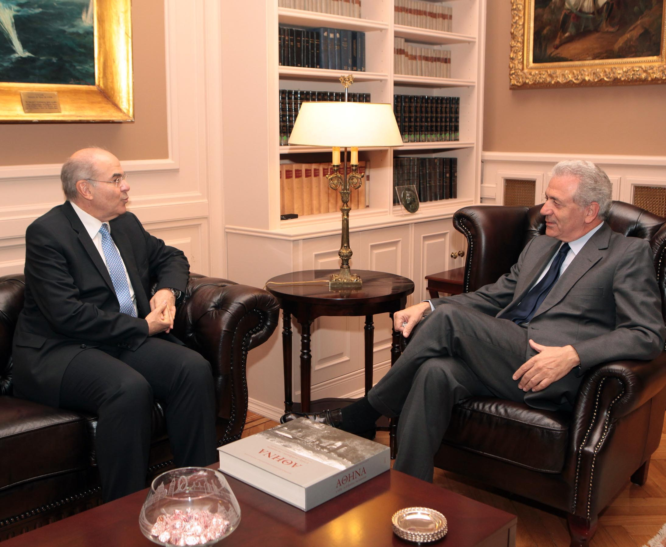 Foreign Minister of Greece Dimitris Avramopoulos meeting with President of the European Court of Justice Vassilios Skouris at the Ministry of Foreign Affairs in Greece on 1 April 2013.